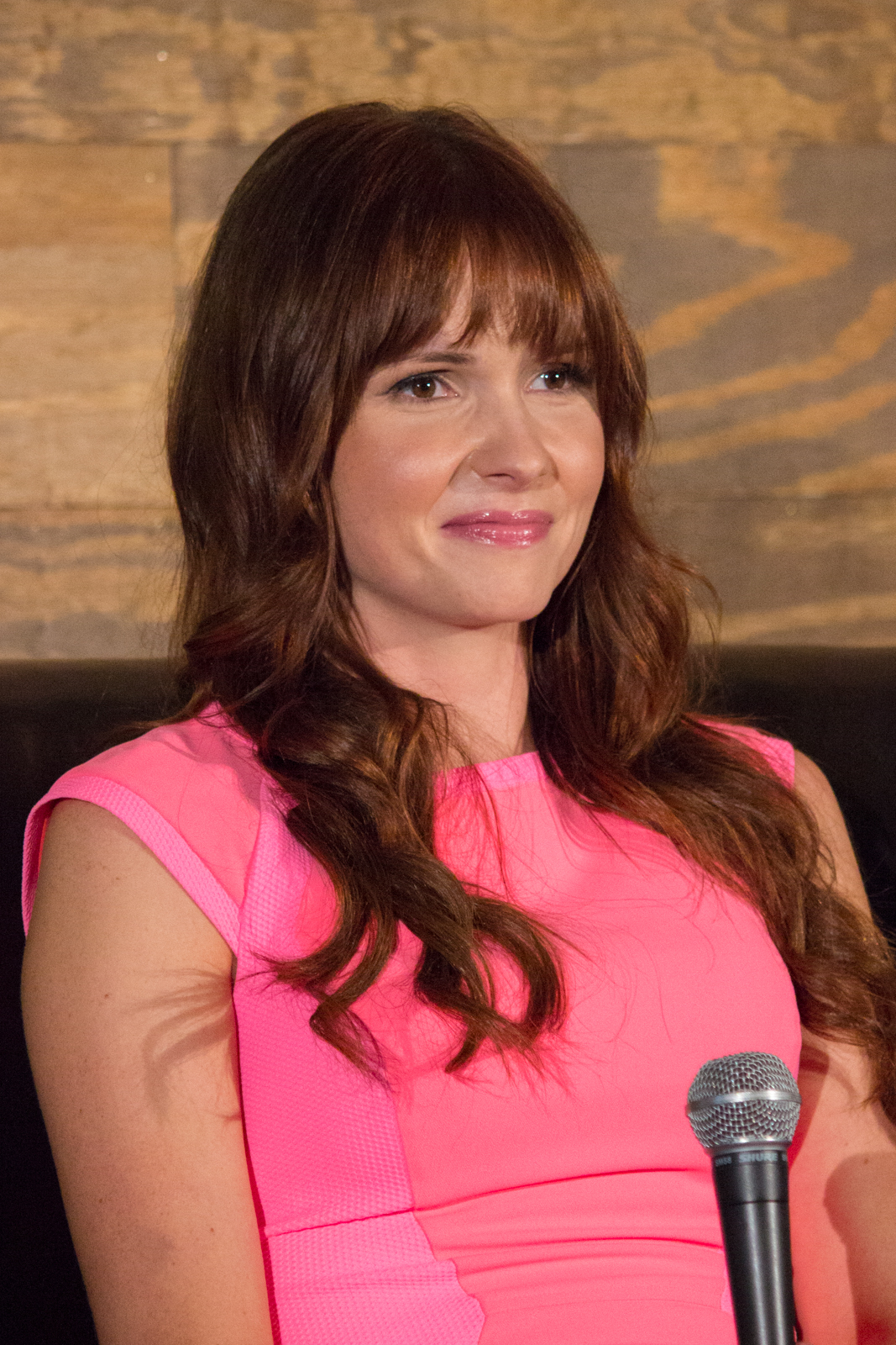 Actress Valerie Azlynn at the ATX TV Festival 2014 for the TV show "Sullivan and Son"